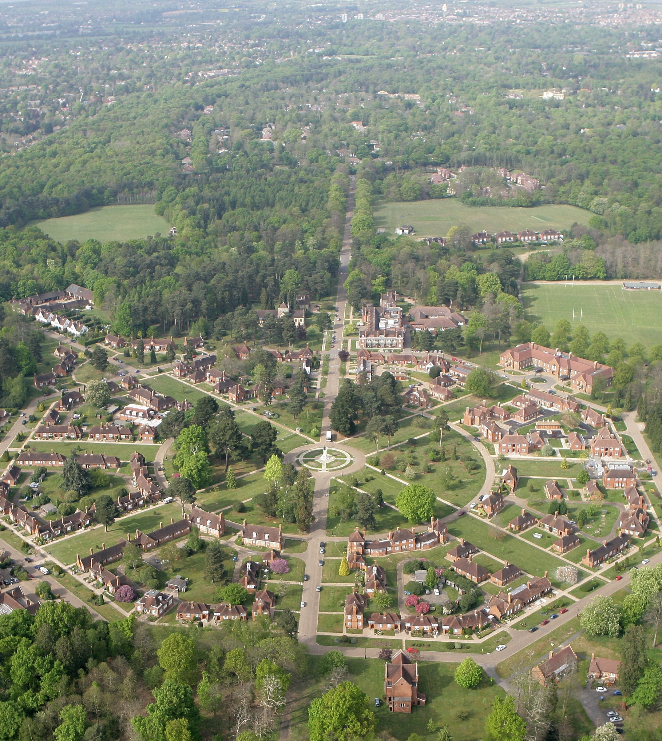 Whiteley Village, retirement village in Surrey, run by the Whiteley Homes Trust for the benefit of older people of limited means.